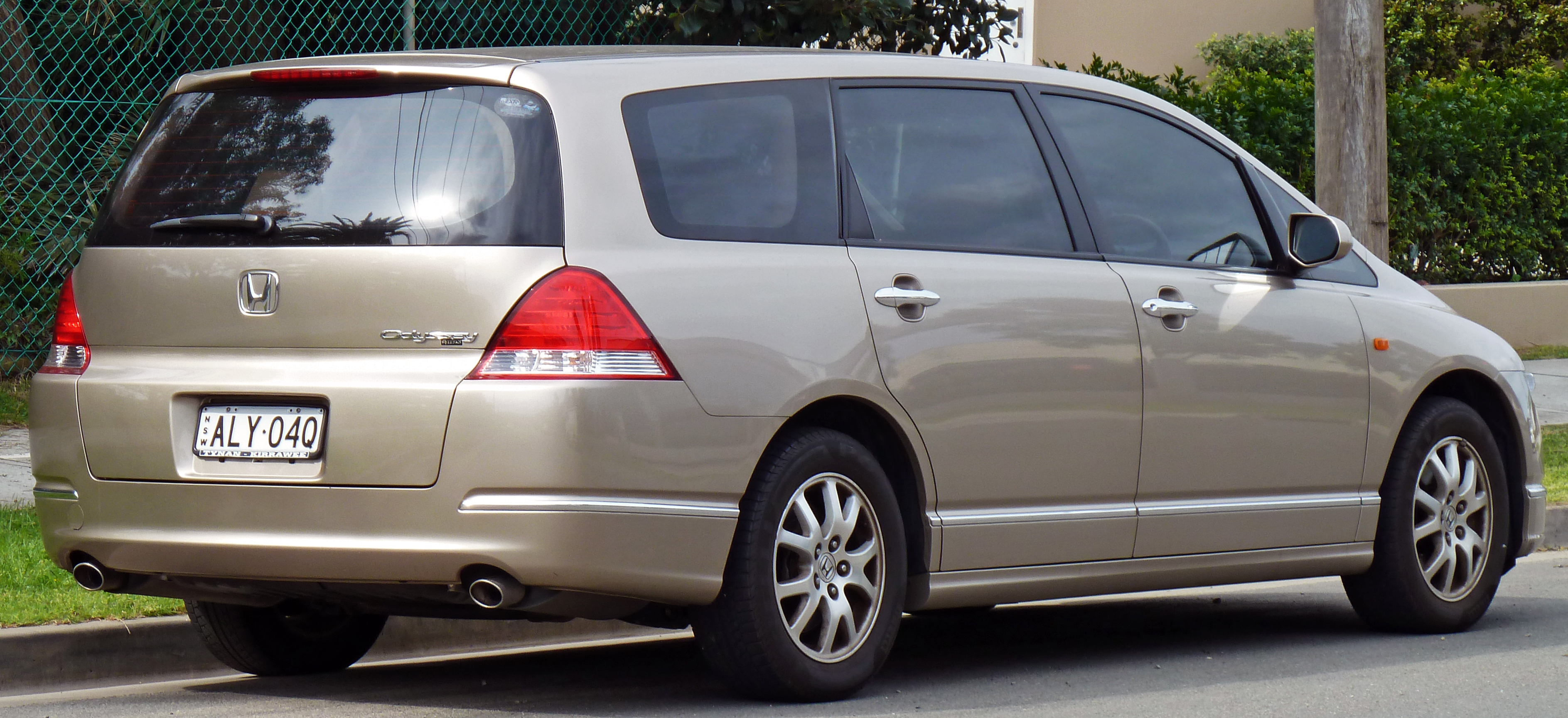 2004–2006 Honda Odyssey Luxury van. Photographed in Taren Point, New South Wales, Australia.